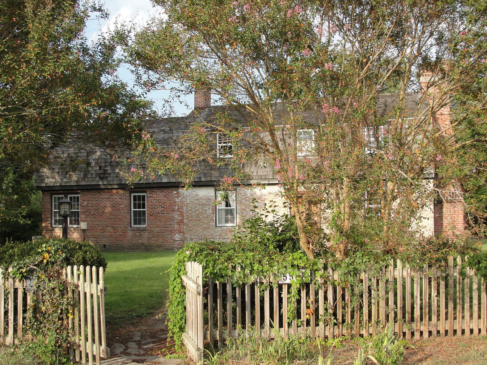 Weblin HouseMoores Pond and Weblin Farm Roads Virginia Beach, Va